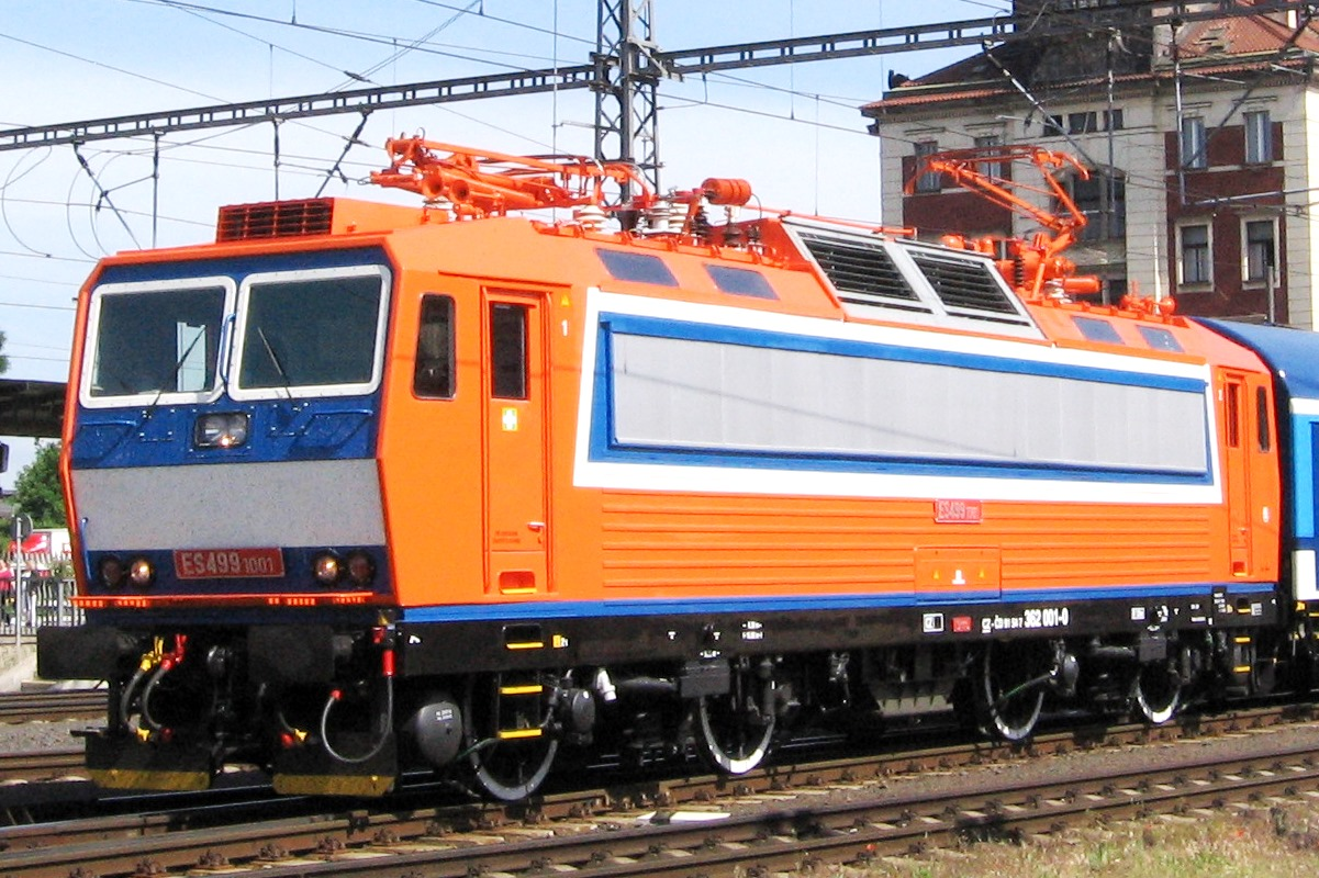 Prototype of Class ES 499.1 / 363 now after overhaul and maximal speed increasing to 140 km/h signed as 362.001 in original livery at Prague main station.